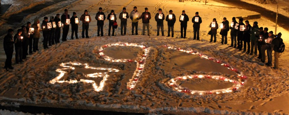 The Bangladeshi community in Stuttgart, Germany express their solidarity with the Shahbag Protest 2013 in Dhaka, Bangladesh.